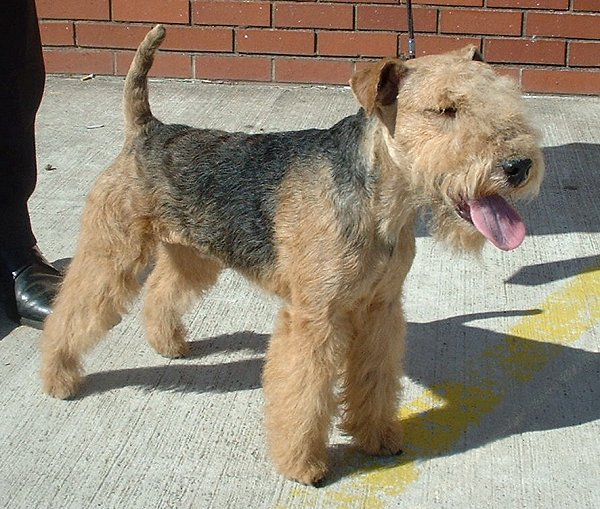 Lakeland Terrier "Ebrooks Galahad" at the City of Birmingham Championship Dog Show